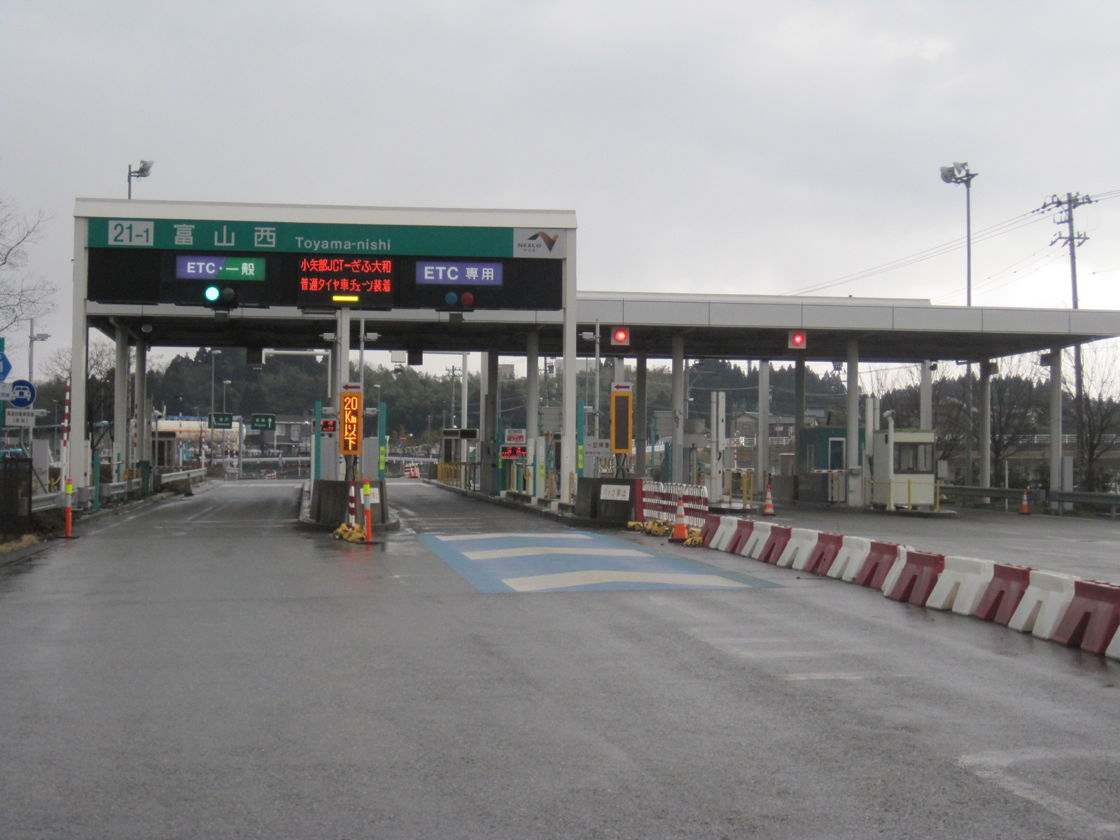 Toyama-nishi Inter Change (Hokuriku Expressway, Toyama prefecture, Japan)